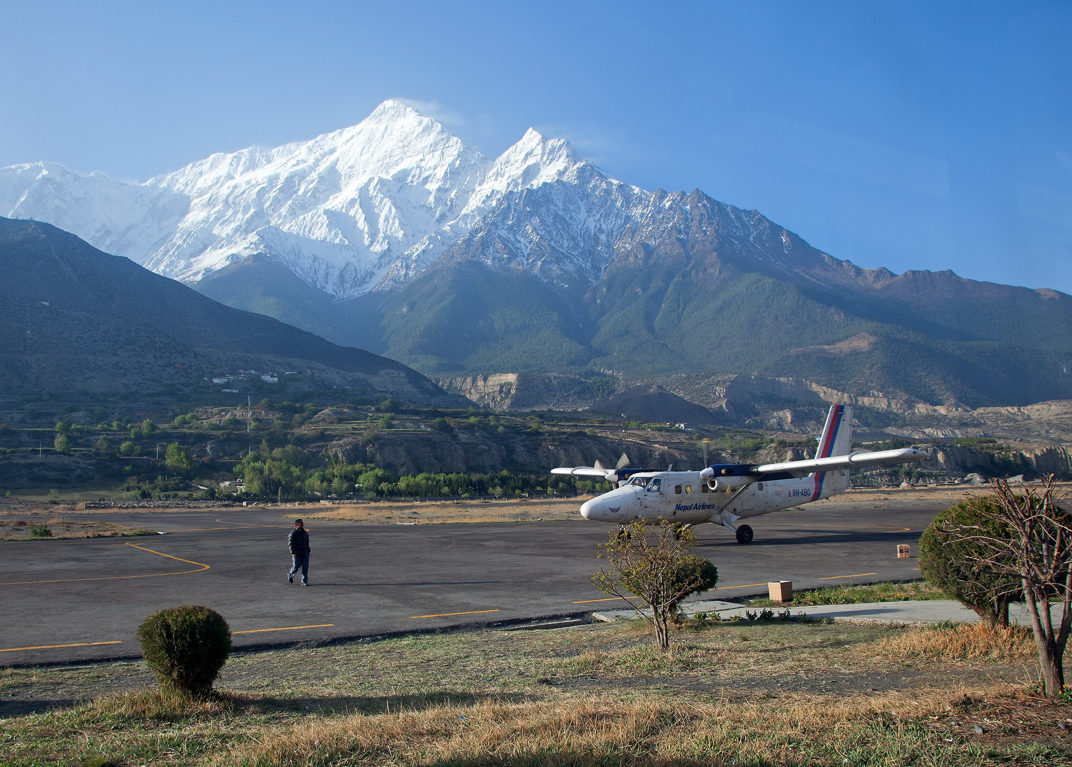 Nepal Airlines de Havilland Canada DHC-6 Twin Otter 9N-ABO in Jomsom